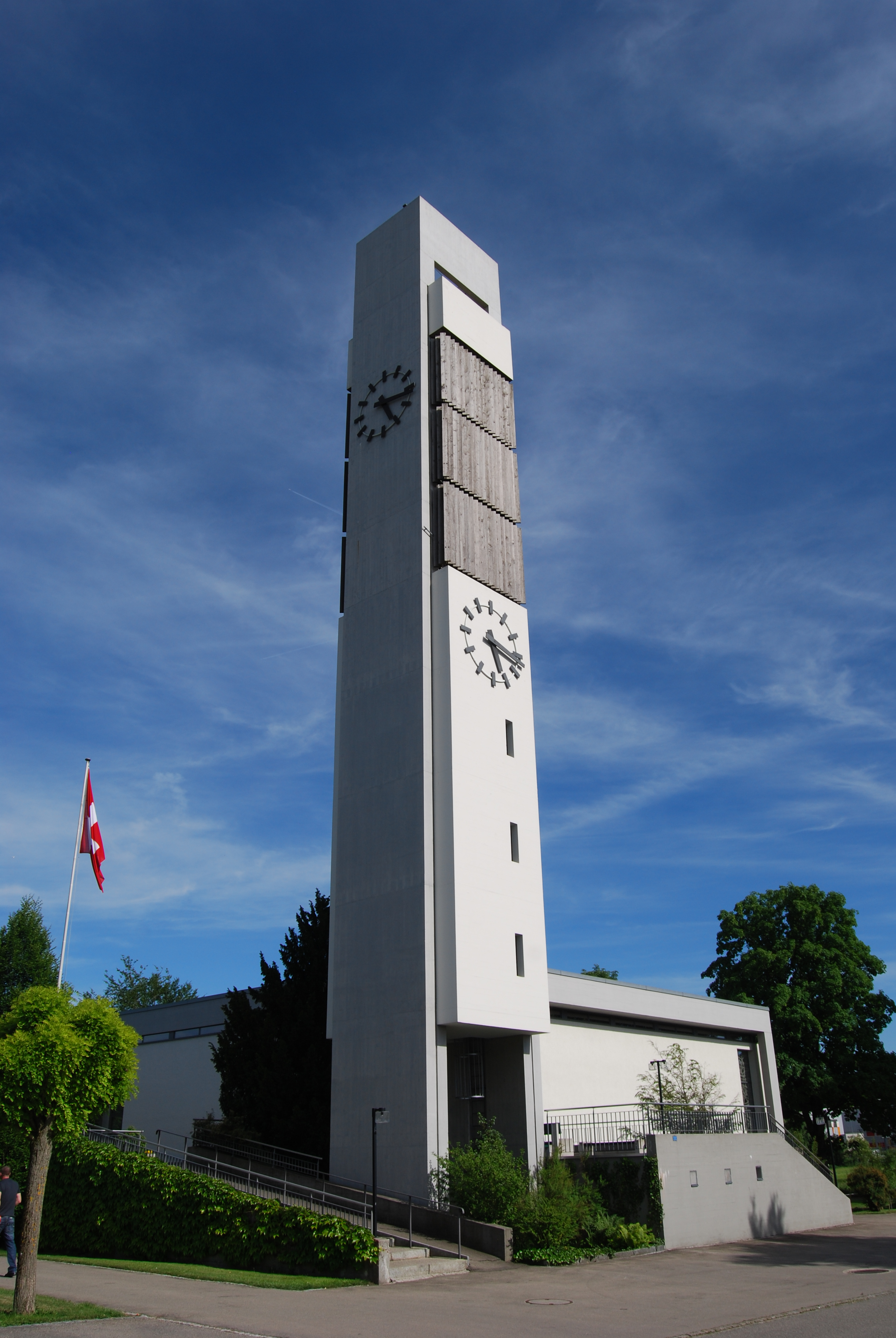 Catholic church Eschlikon, canton of Thurgovia, Switzerland